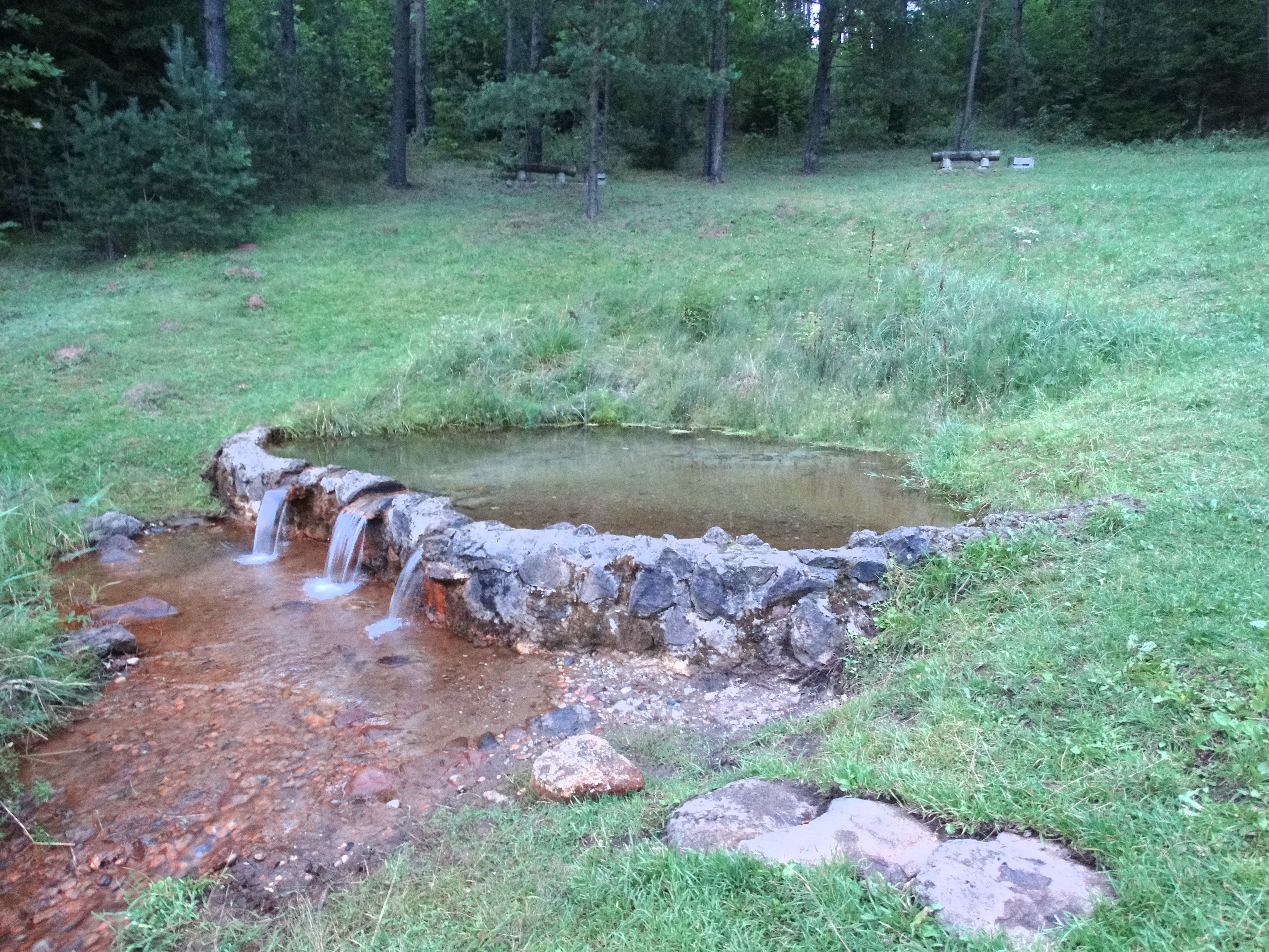 Spring Lino verdenė, Švenčionys District, Lithuania